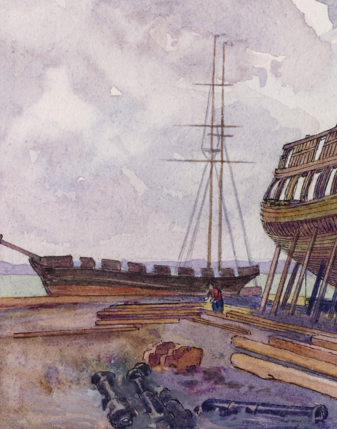 A watercolour of the construction of HMS Isaac Brock. Original caption: "Built 1812-1813, the 'Sir Isaac Brock' was burnt before completion to prevent her capture by the Americans in April 1813 Inscribed in pencil, vso c.: Sir Isaac Brock / new ship building at York The dismantled H.MS. 'Duke of Gloucester' (captured by the Americans 27 April 1813 and renamed the 'York') is shown in the background with the masts of H.M.S 'Prince Regent' behind her" This image is available from the Toronto Public Library under the reference number JRR1152This tag does not indicate the copyright status of the attached work. A normal copyright tag is still required. See Commons:Licensing. English | français | +/−